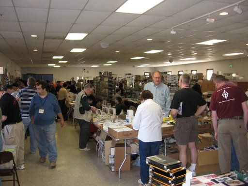 The vendor area at the 2007 International show of the Armor Modeling and Preservation Society